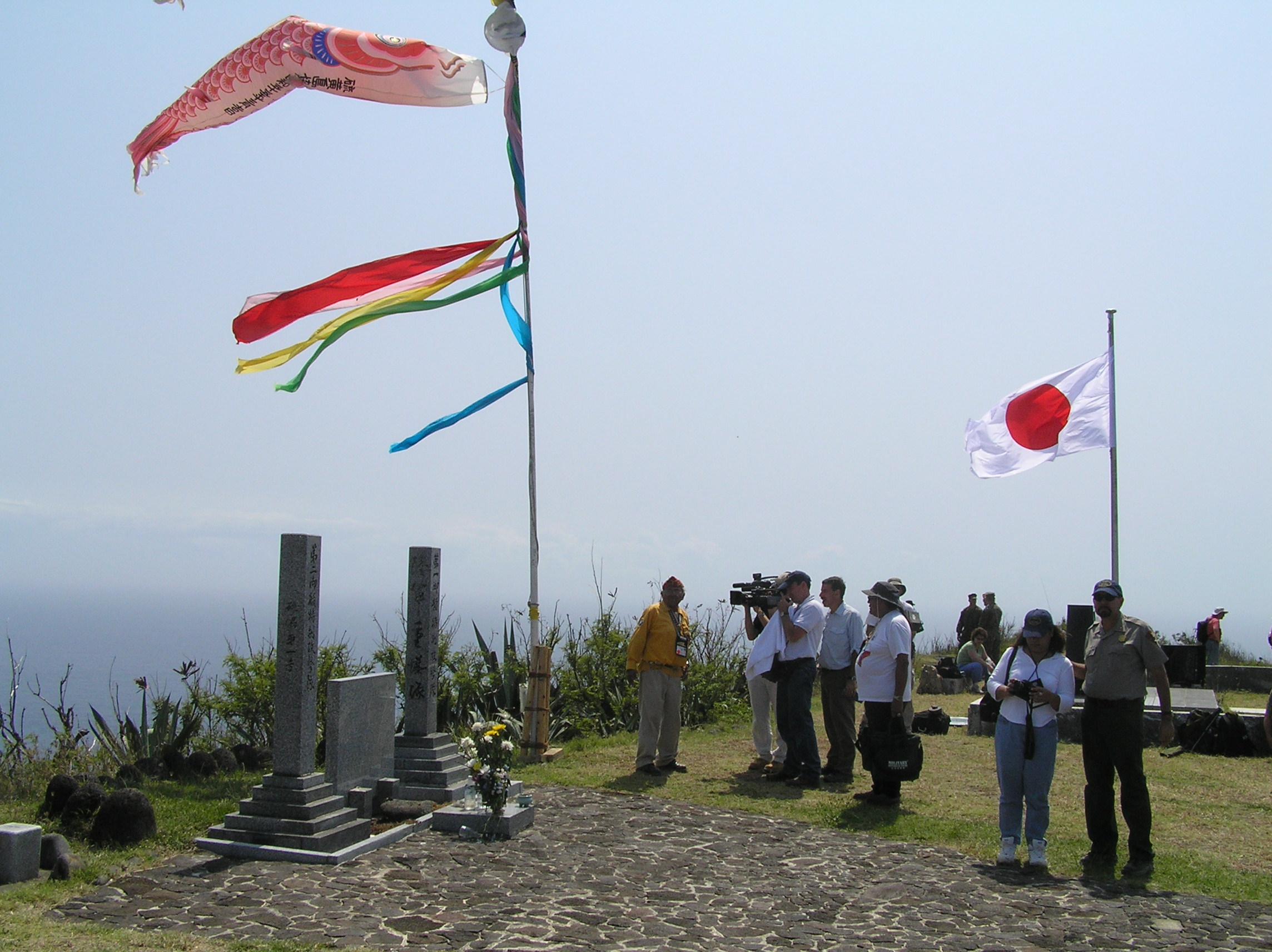 60th anniversary of the Battle of Iwo Jima in 2005.